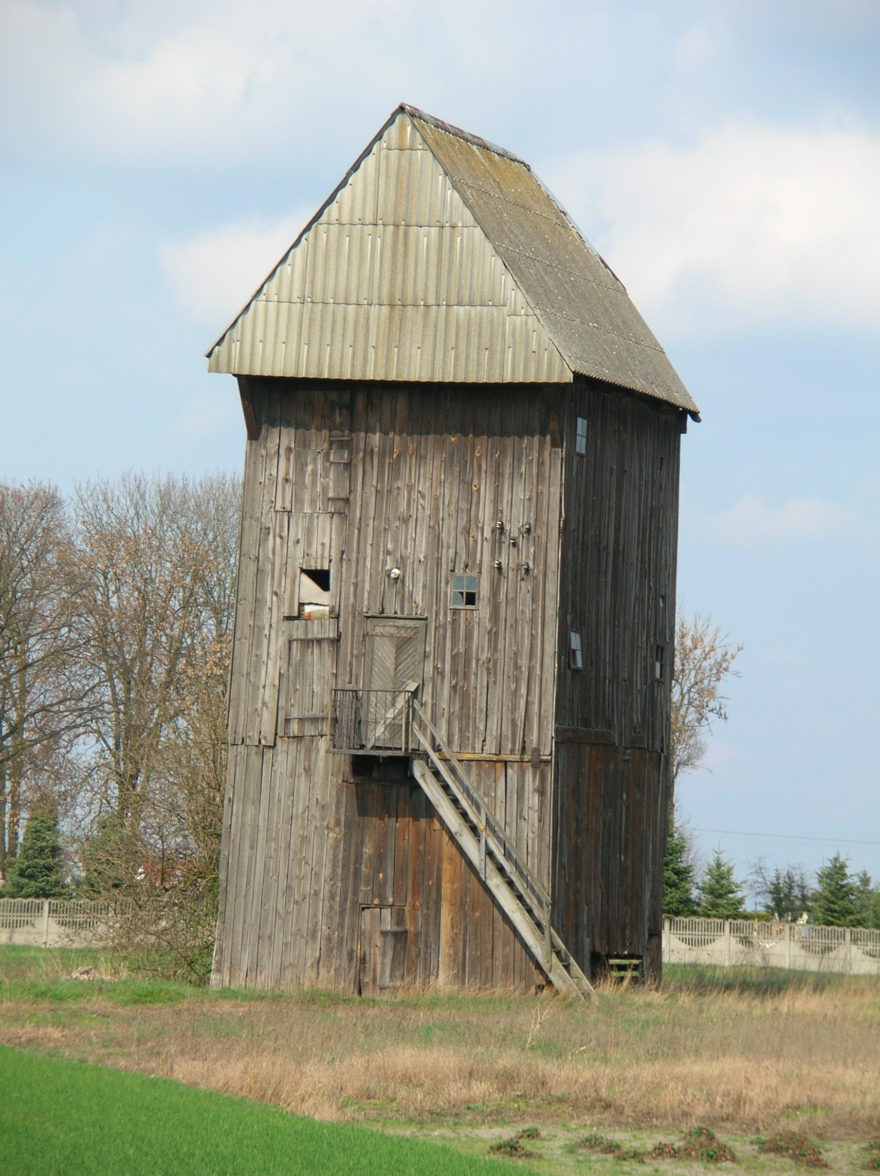 Windmill in Wilczyn